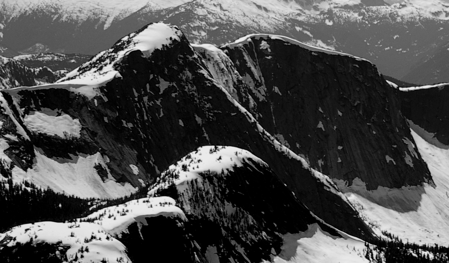 Gamuza Peak of Canadian Cascades